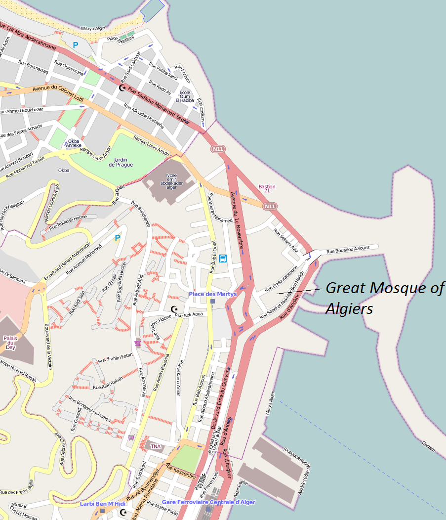 Map of showing the Great Mosque location, Algiers